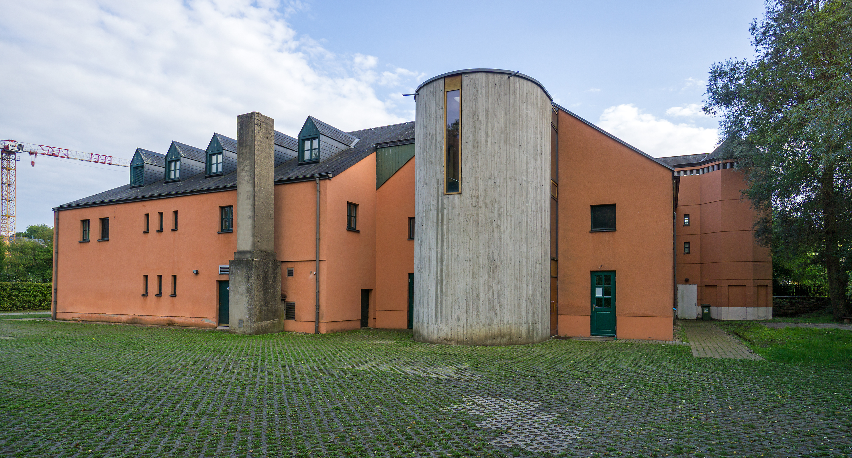 The Bestgen mill in Schifflange